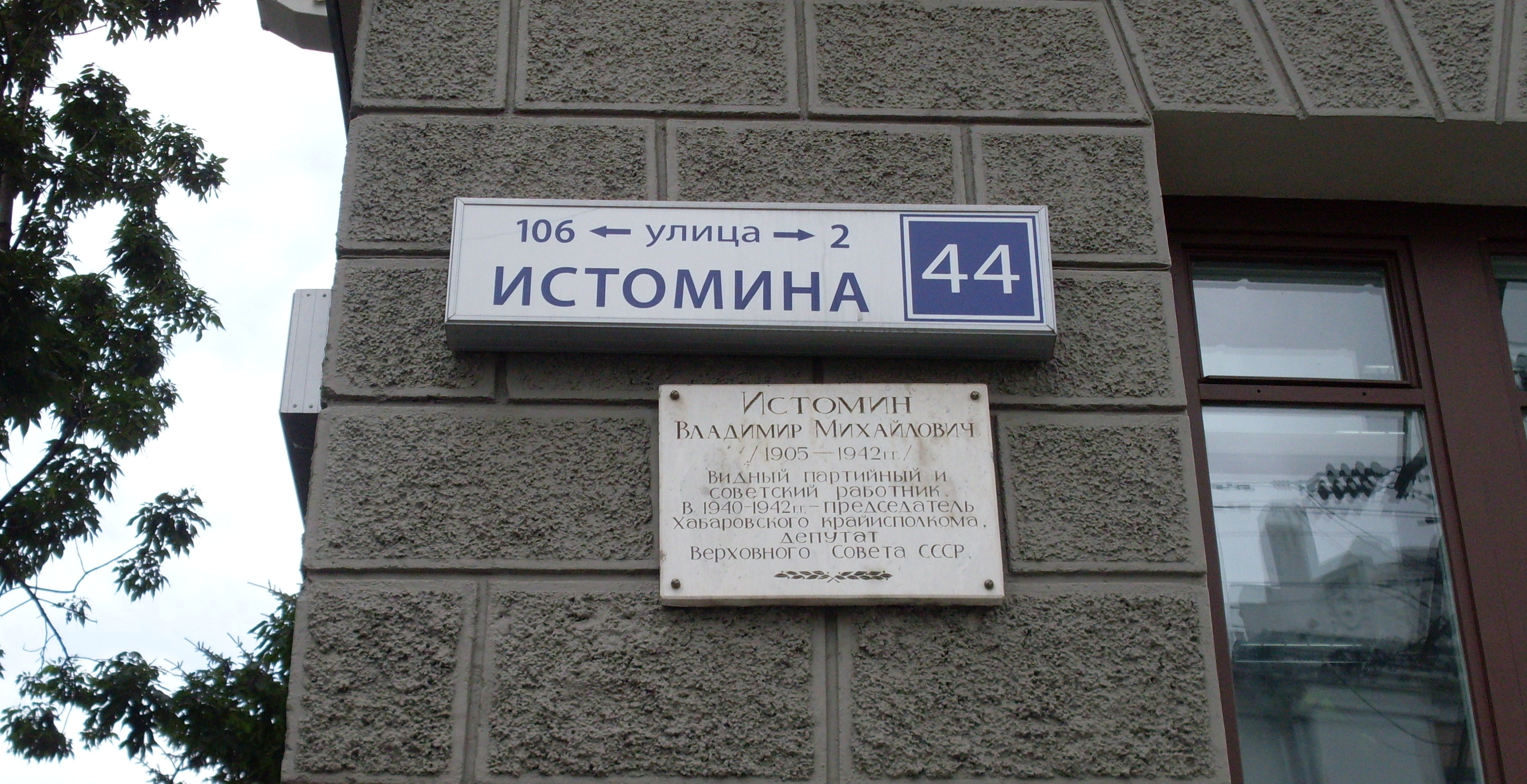 Memorial plaque V.M. Istomin